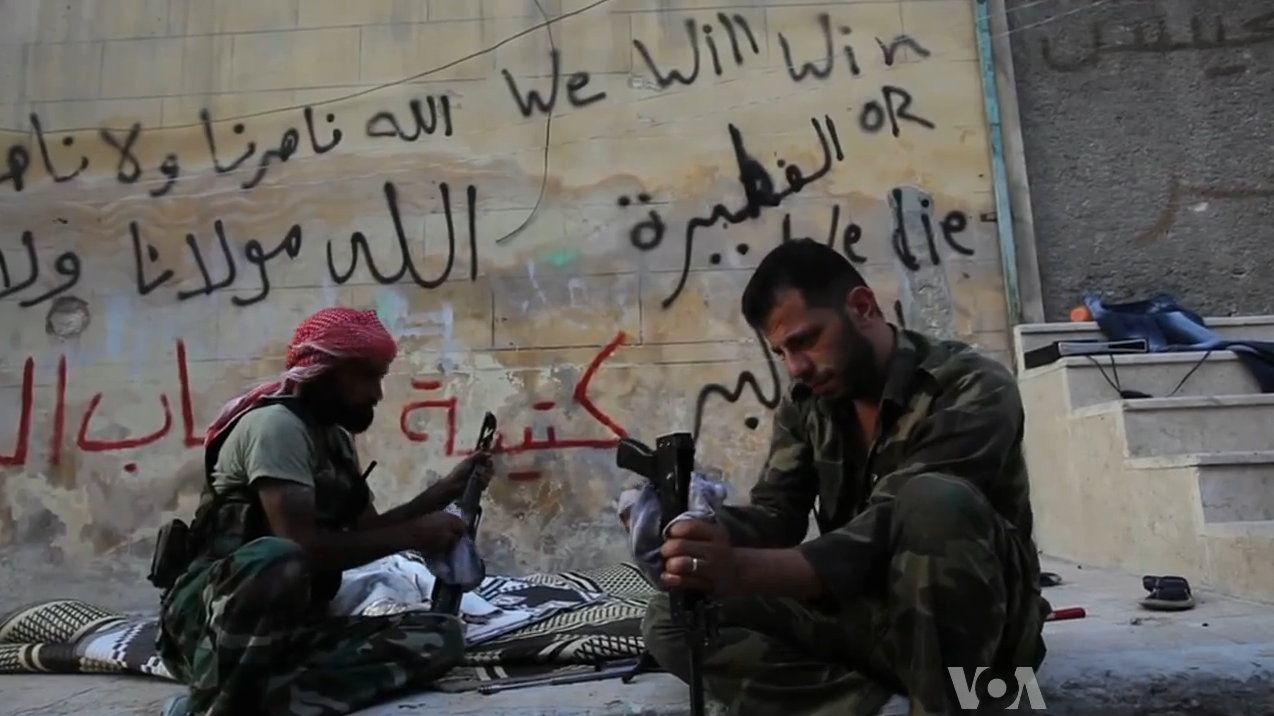 FSA rebels cleaning their AK47s in Aleppo, Syria during the civil war (19 October 2012).